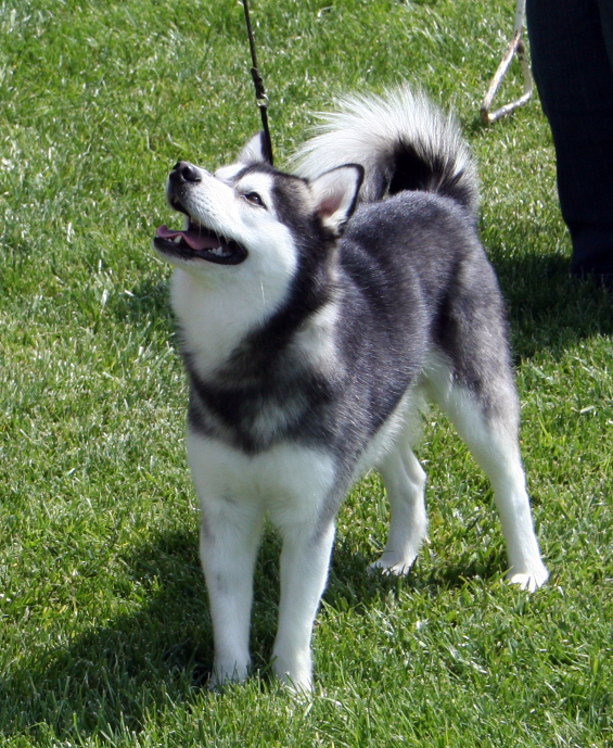 Standard Size Male Alaskan Klee Kai black and white coloring